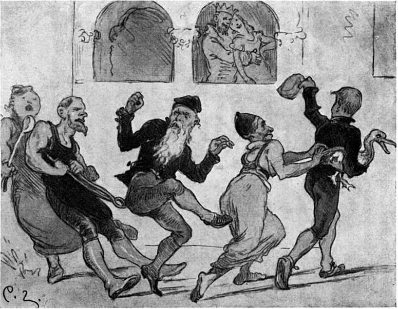 Illustration by Carl Larsson of the book "Folksagor" by Asbjörnsen and Moe, Stockholm 1927